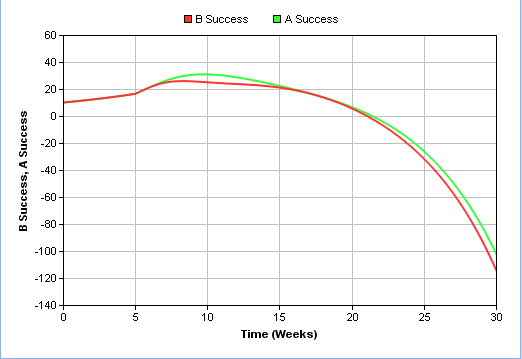 Accidental Adversaries system archetype time behaviour